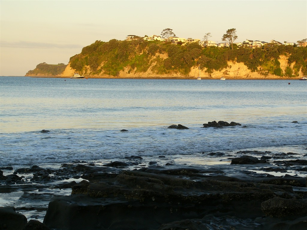 The last rays of the setting sun light up the headland at Stanmore Bay, Whangaparaoa, New Zealand.